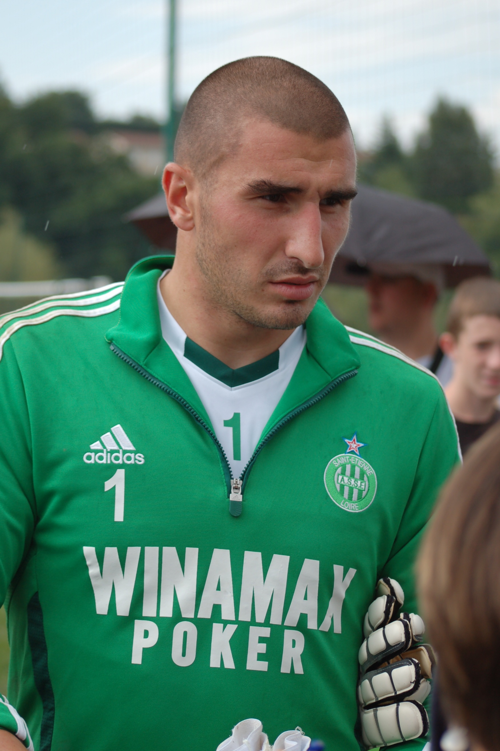 Football player Stéphane Ruffier training with AS Saint-Etienne, on August 3rd, 2011 (L'Etrat, France).